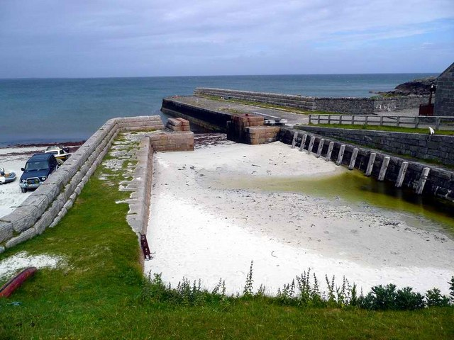 Hynish dock Built under the direction of Alan Stevenson (one of 'The lighthouse Stevensons') to support the building of the Skerryvore lighthouse, 10 miles to the SW of Hynish. Forced to build the dock facing into the prevailing weather, it tended to silt up. To guard against this he fitted storm gates to the dock, and also installed a flushing system fed from a dam higher up in the hills.